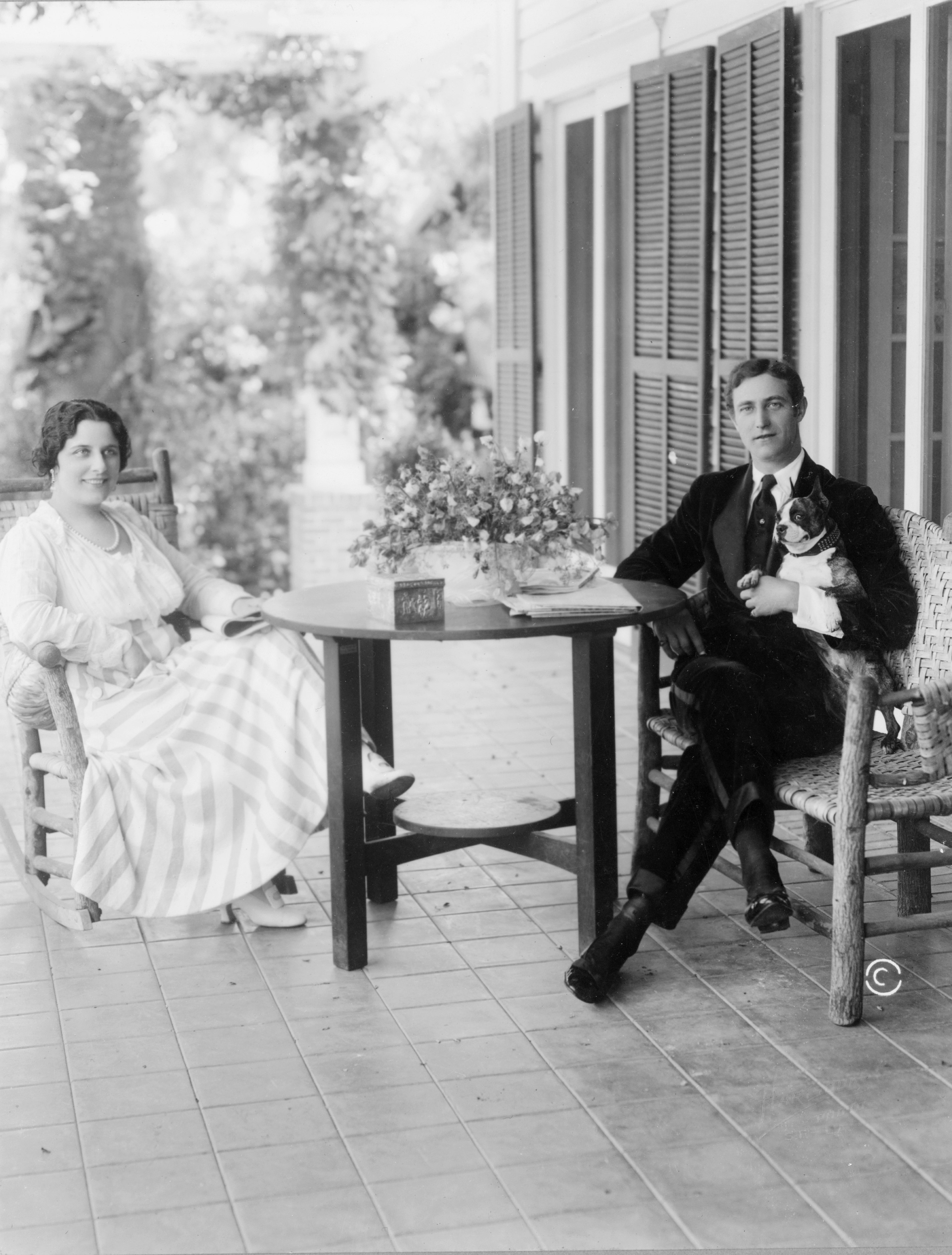 Title: Geraldine Farrar, full-length portrait, seated on porch, facing right; with Lon Tellegen? holding dog] / Hartsook Photo, S.F.-L.A. Abstract/medium: 1 photographic print.